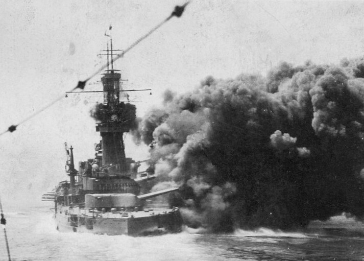 The U.S. Navy battleship USS Pennsylvania (BB-38) firing a broadside from her main batteries in the 1920s.